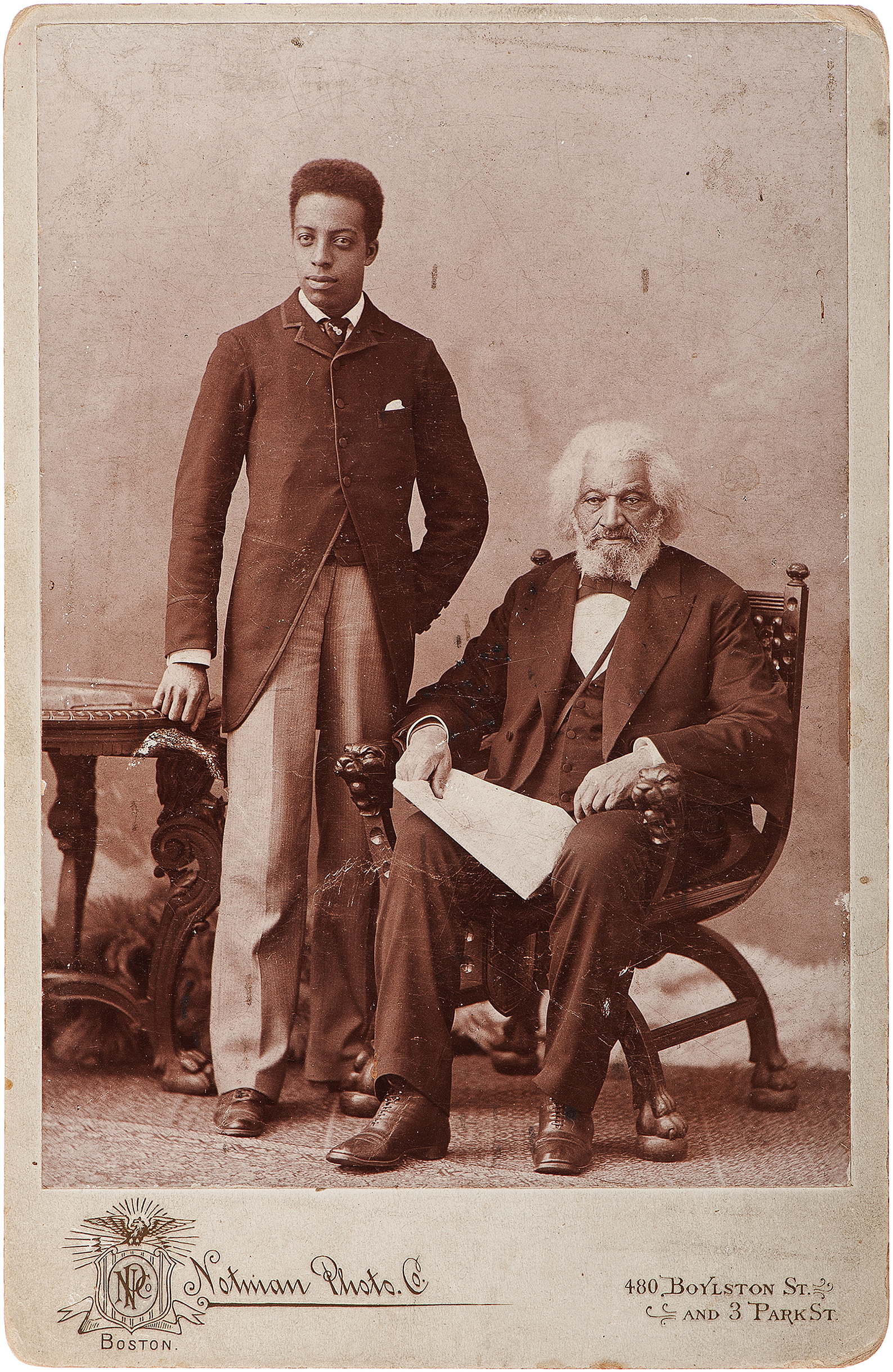 A studio view of famed African American abolitionist Frederick Douglass later in life, seated in claw foot armchair, holding a paper, with his young grandson, Joseph Douglass, standing at his side. The younger Douglass was an accomplished concert violinist, educator, and conductor.